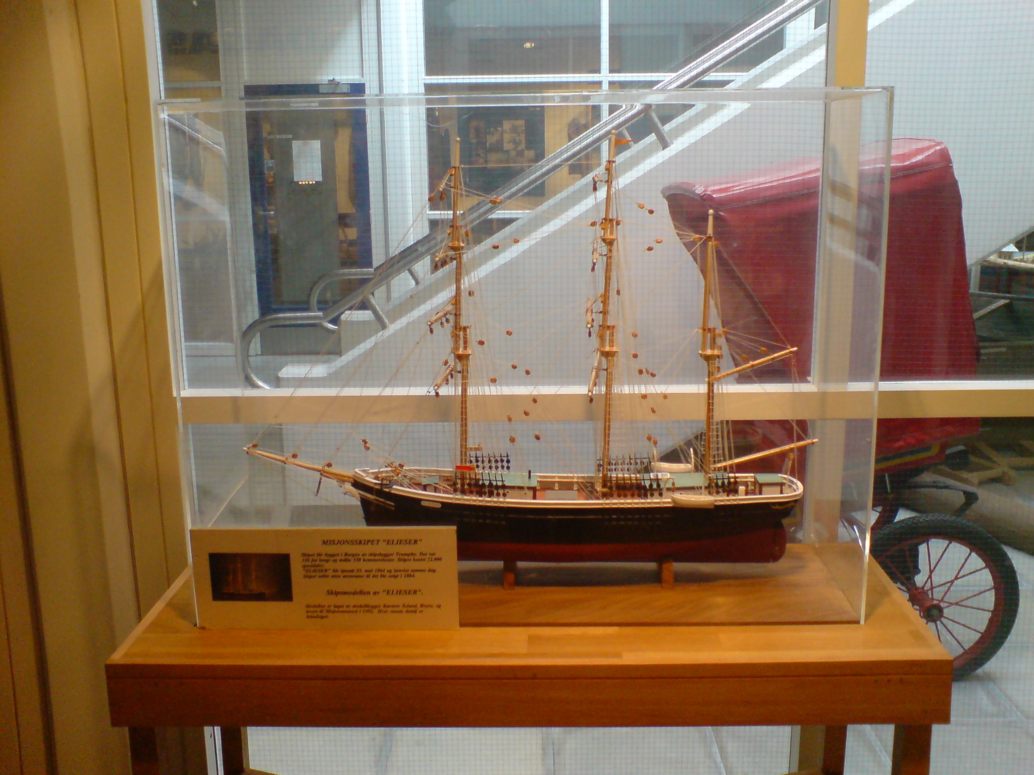 A sailing ship operated by the Norwegian Mission Society from 1864.